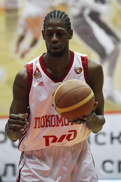 James Gist, Game: lokomotiv-Kuban vs. Triumph